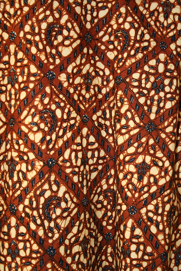 Batik cloth purchased in Yogyakarta, IndonesiaBahasa Indonesia: Kain batik dari Yogyakarta, Indonesia